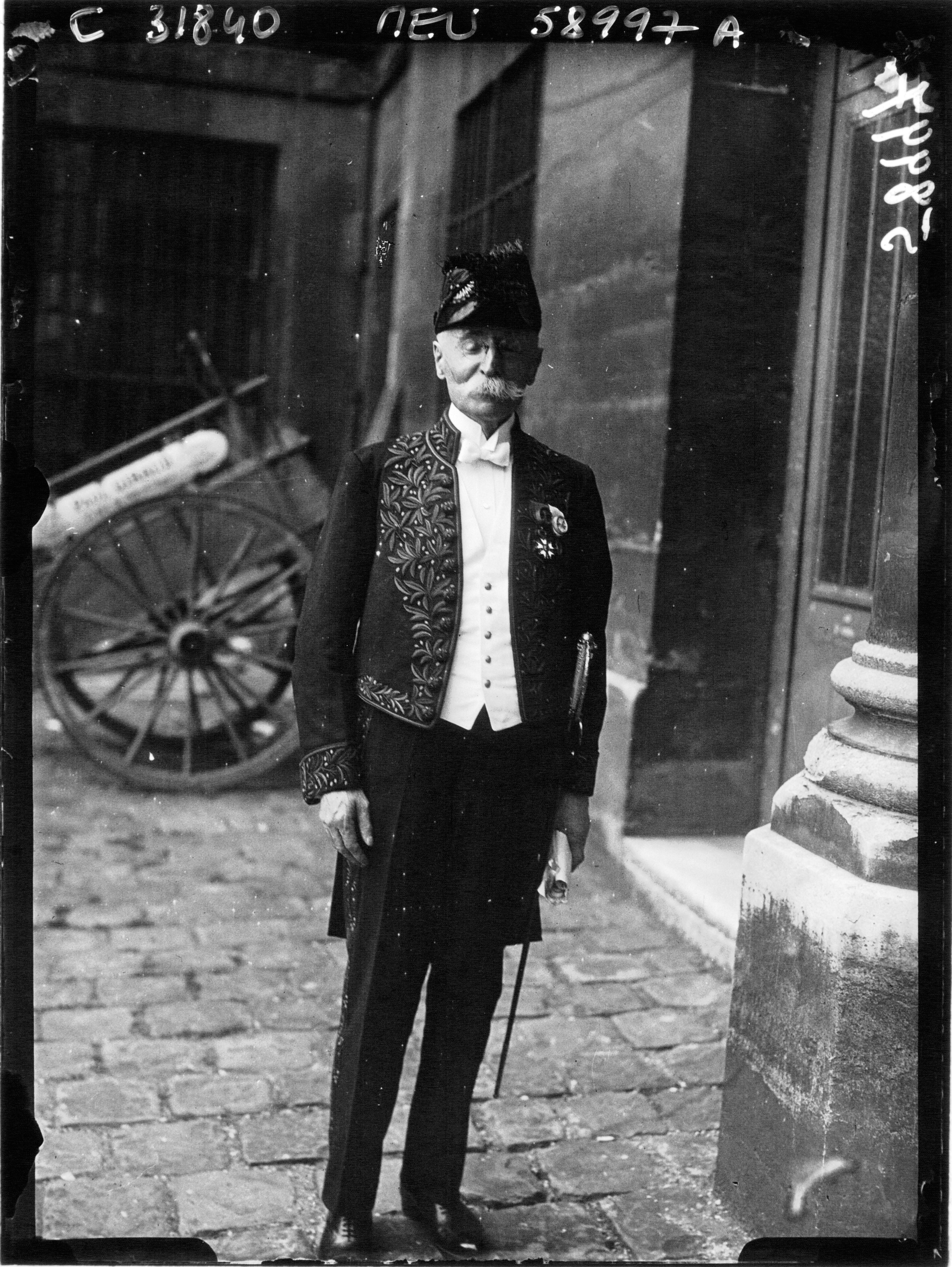 French historian Émile Mâle (1862-1954) as a member of the Académie française.